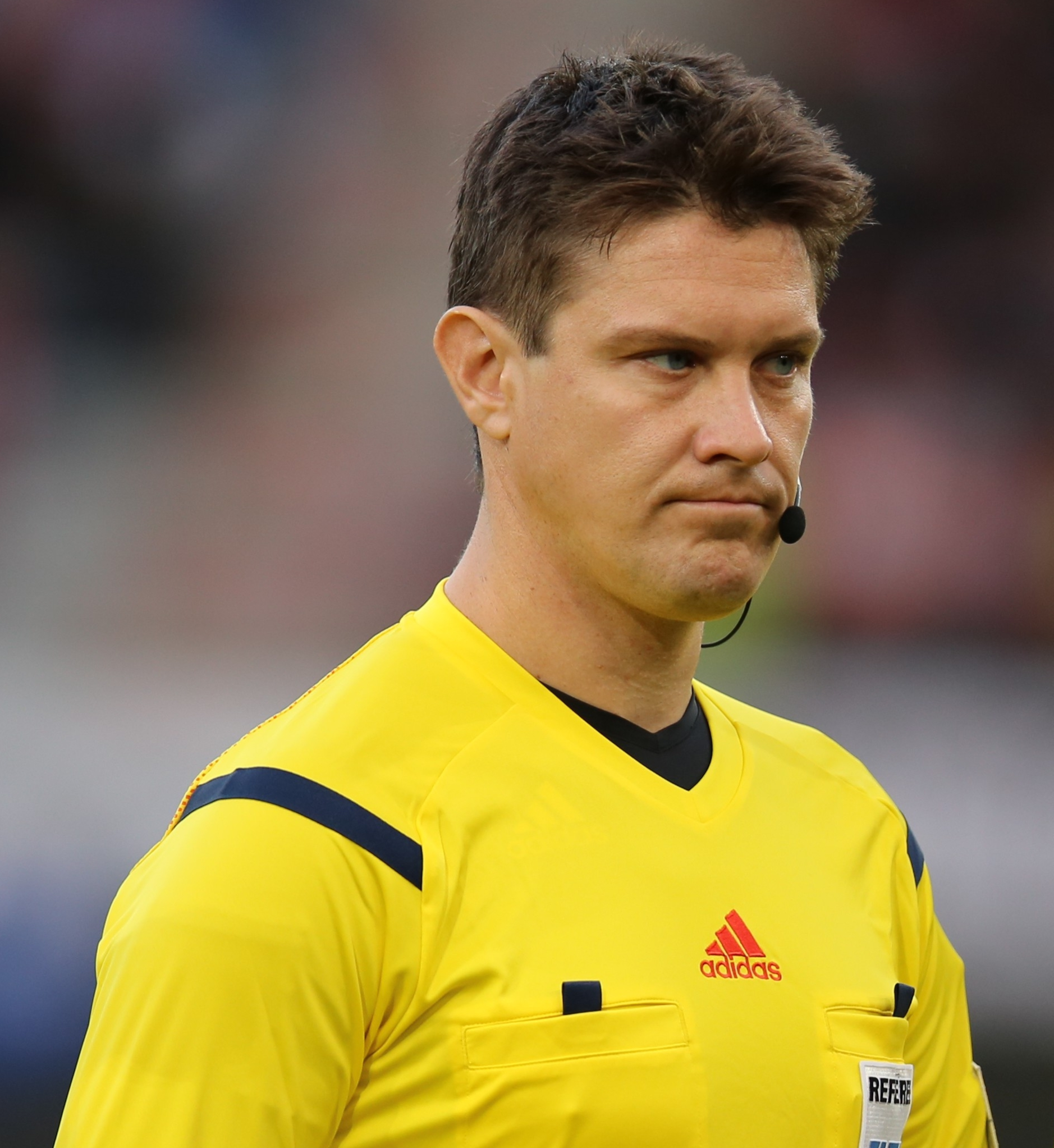 Austria - Iceland football match in Innsbruck, Austria on 2014-05-30. Austria in red, Iceland in blue.